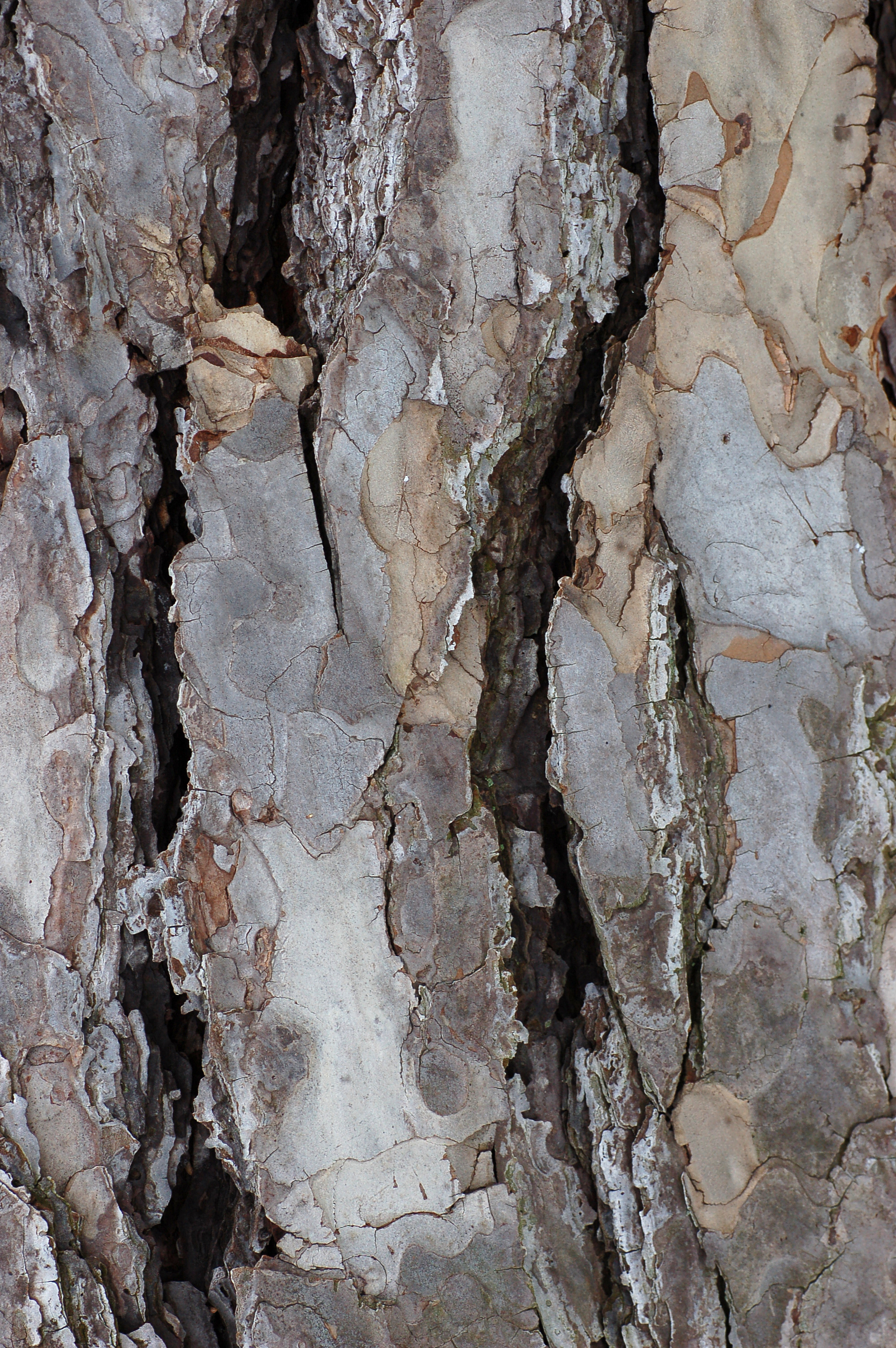 Photograph of the bark of the Austrian Pineen (Pinus_nigra en ). Photo taken at the Tyler Arboretum where it was identified.